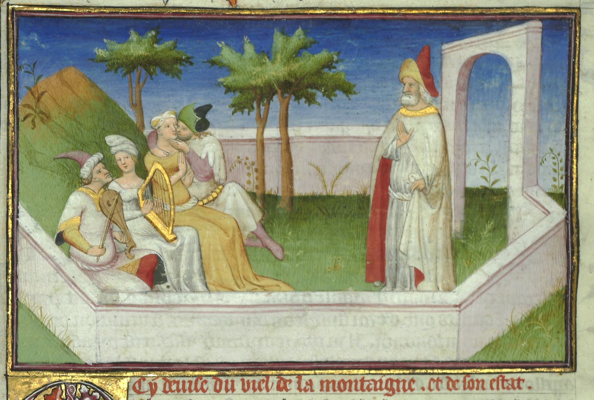 Hassan-i Sabbah depicted with his followers and houris (?).